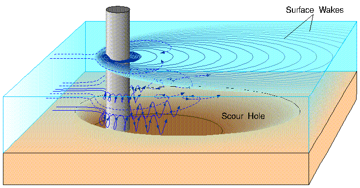 Local scour